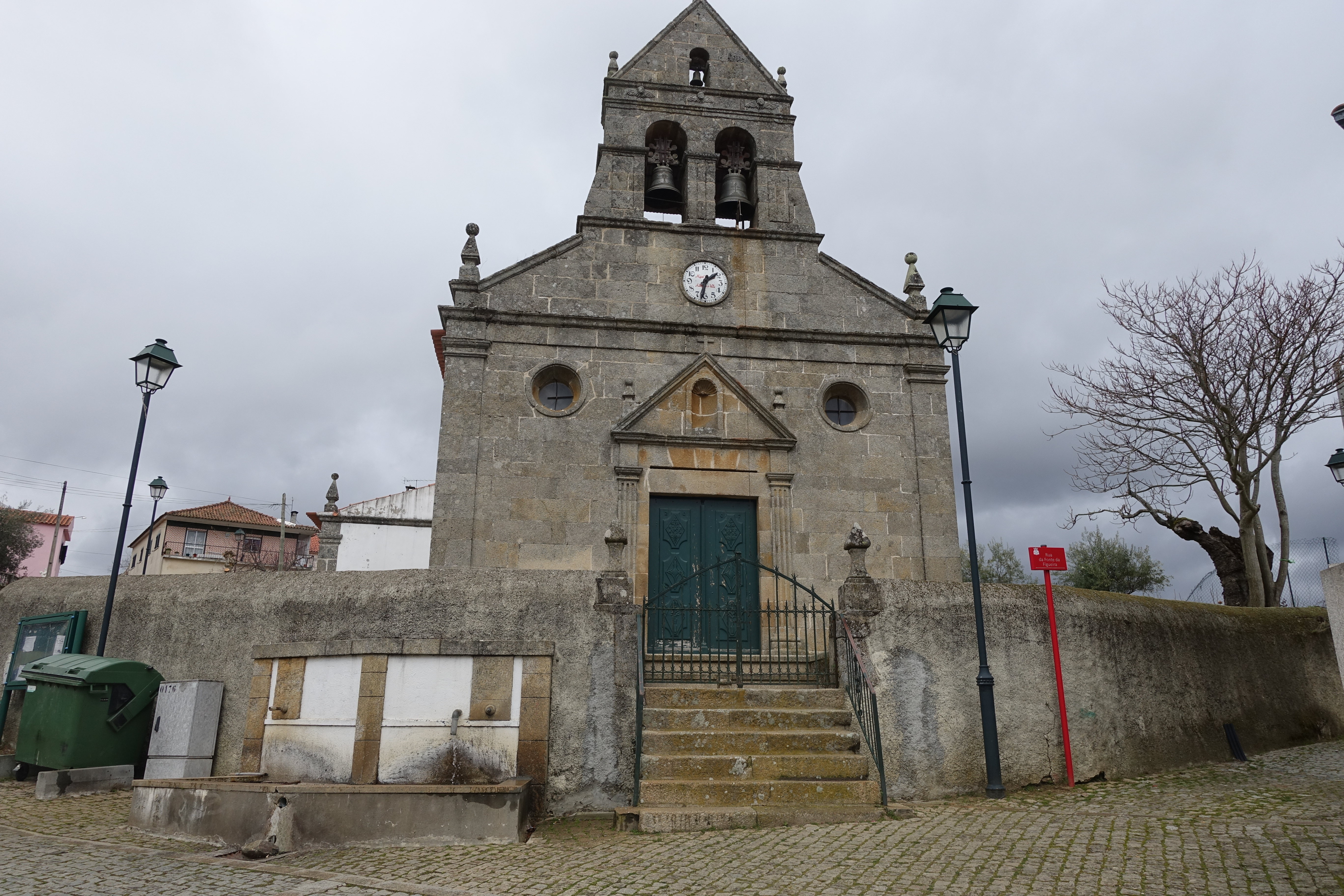 Churche in Podence, Macedo de Cavaleiros, Portugal.